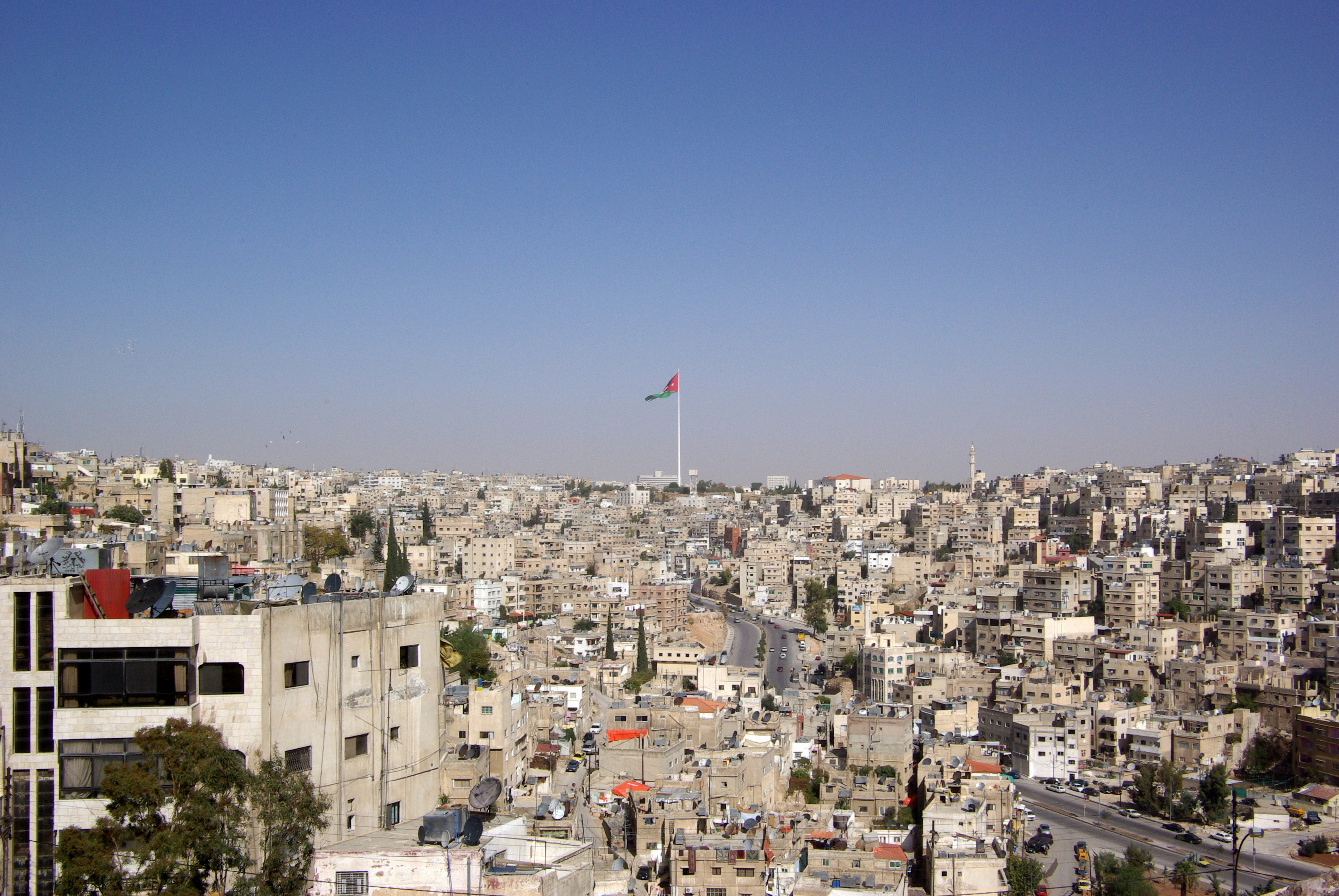 Jordan, Amman, view from the citadel to the north